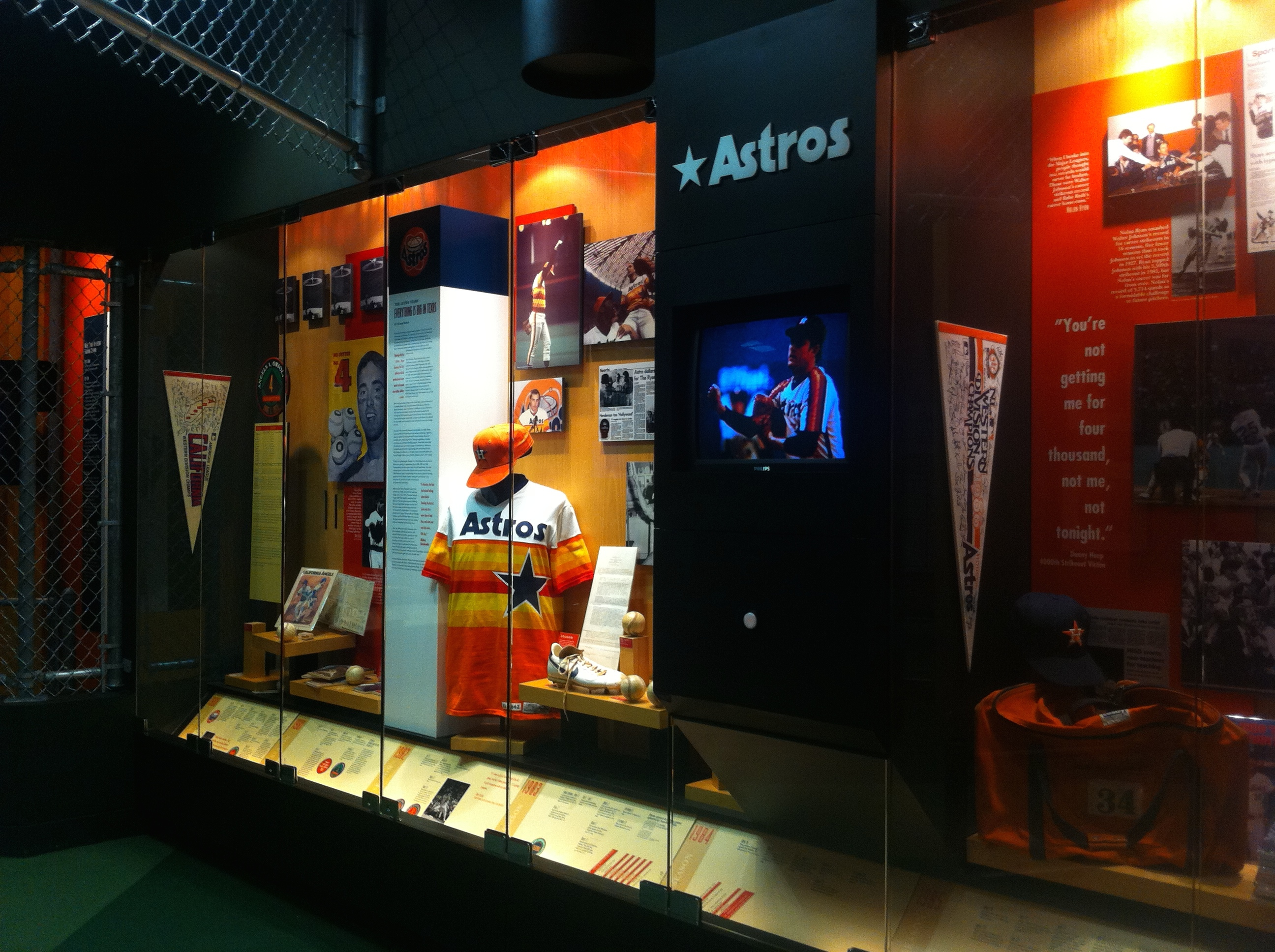 Display at the Nolan Ryan Exhibit Center, a museum on the campus of Alvin Community College dedicated to Nolan Ryan